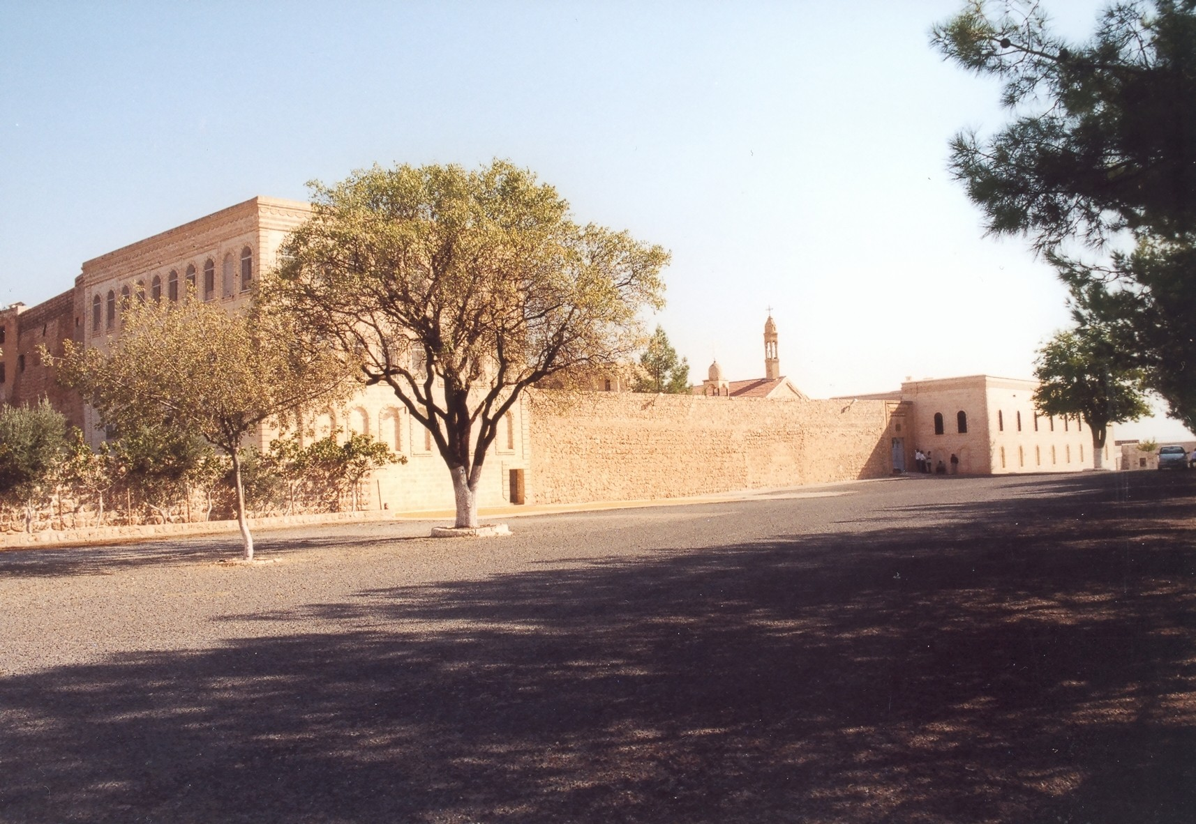 Mor Gabriel Monastery in southeast Turkey.